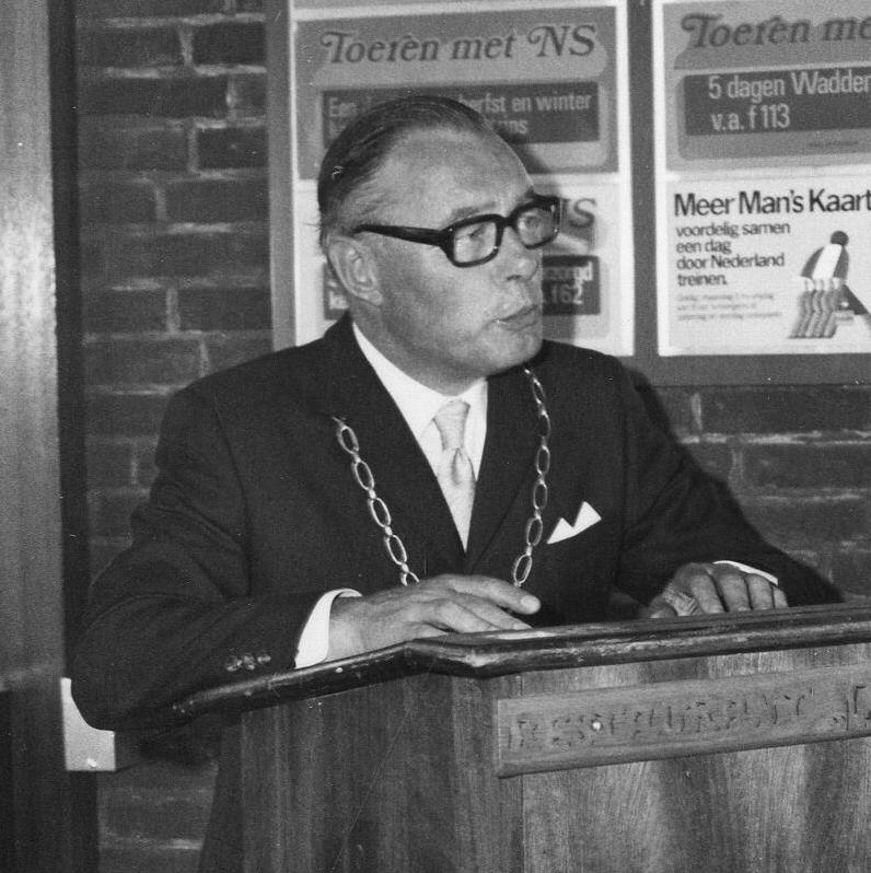 Image of the then mayor of Didam Niek Vlaar during his speech at the opening of the new building of the N.S.-station Didam.